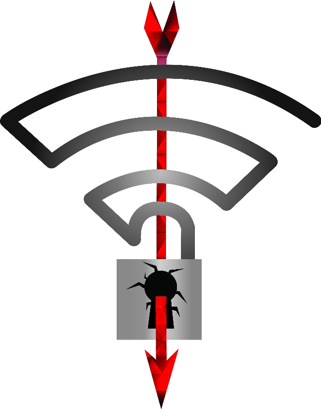 Logo for the KRACK attack on the WPA2 protocol, as used on the website